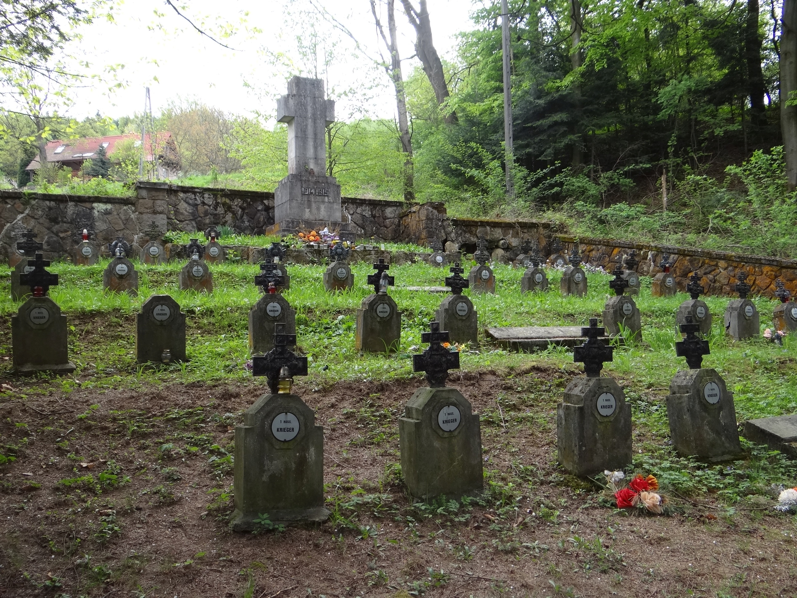 World War I Cemetery nr 151 in Lubaszowa